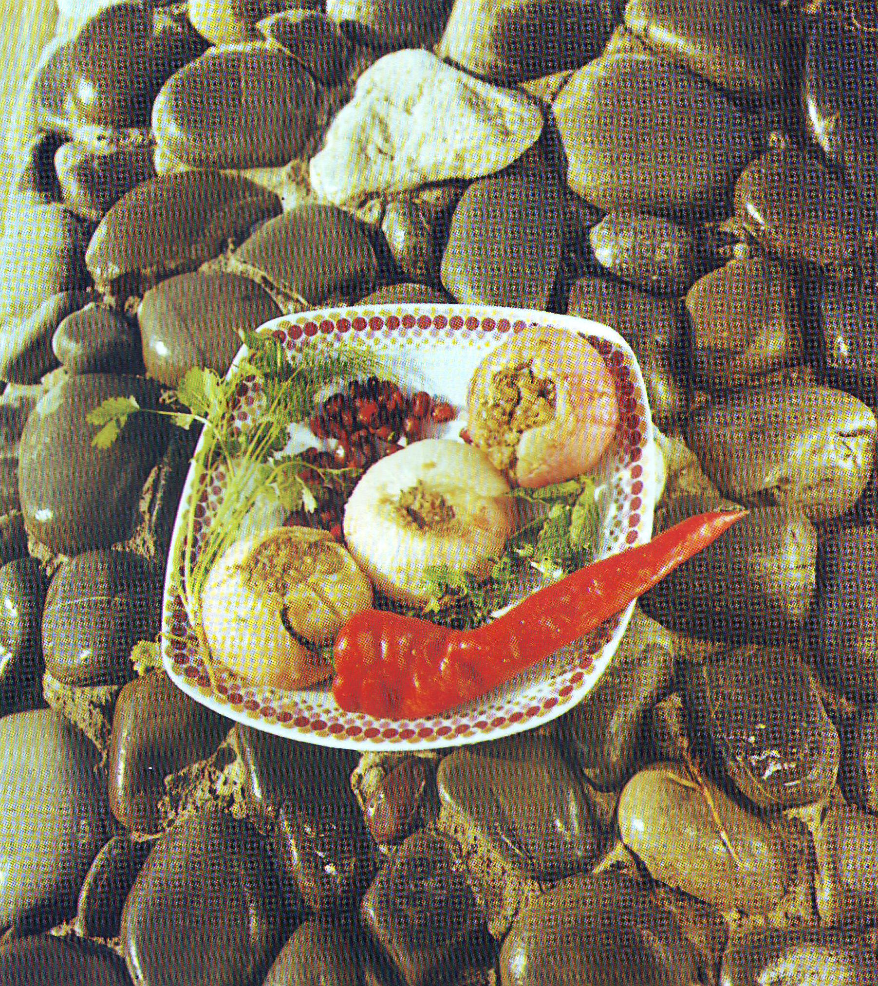 Cuisine of Azerbaijan: Sogan dolmasy (stuffed onions)